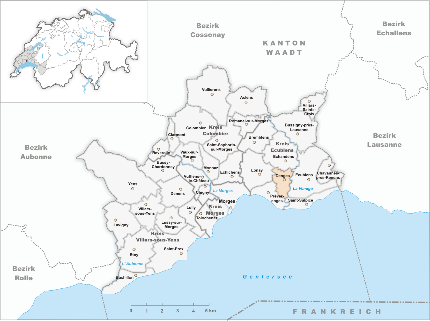 Municipality Denges